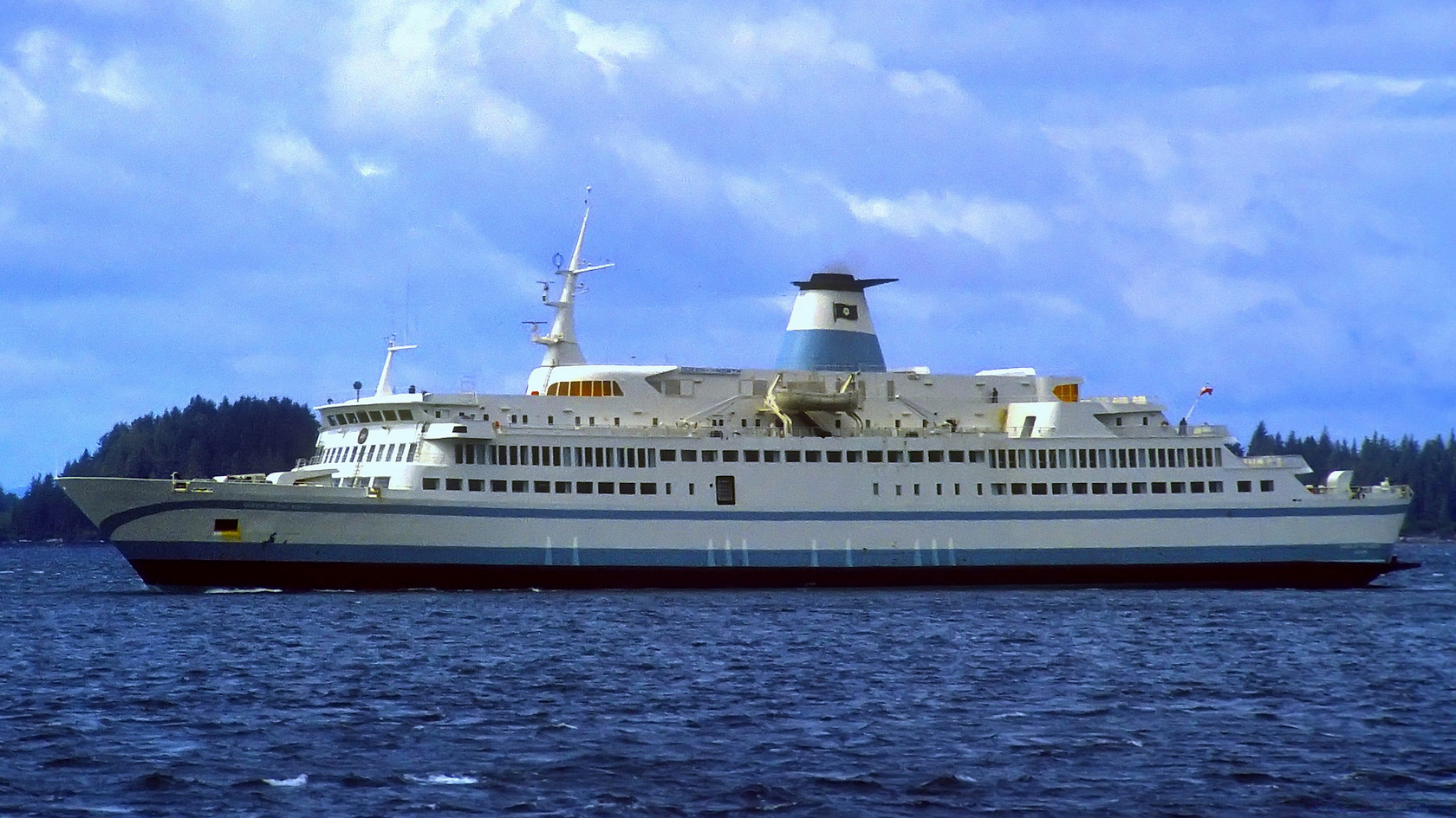 A series of photos from an open ship that took place on the last day of May, 1980, as the Queen of the North began service on BC Ferries' Inside Passage route.